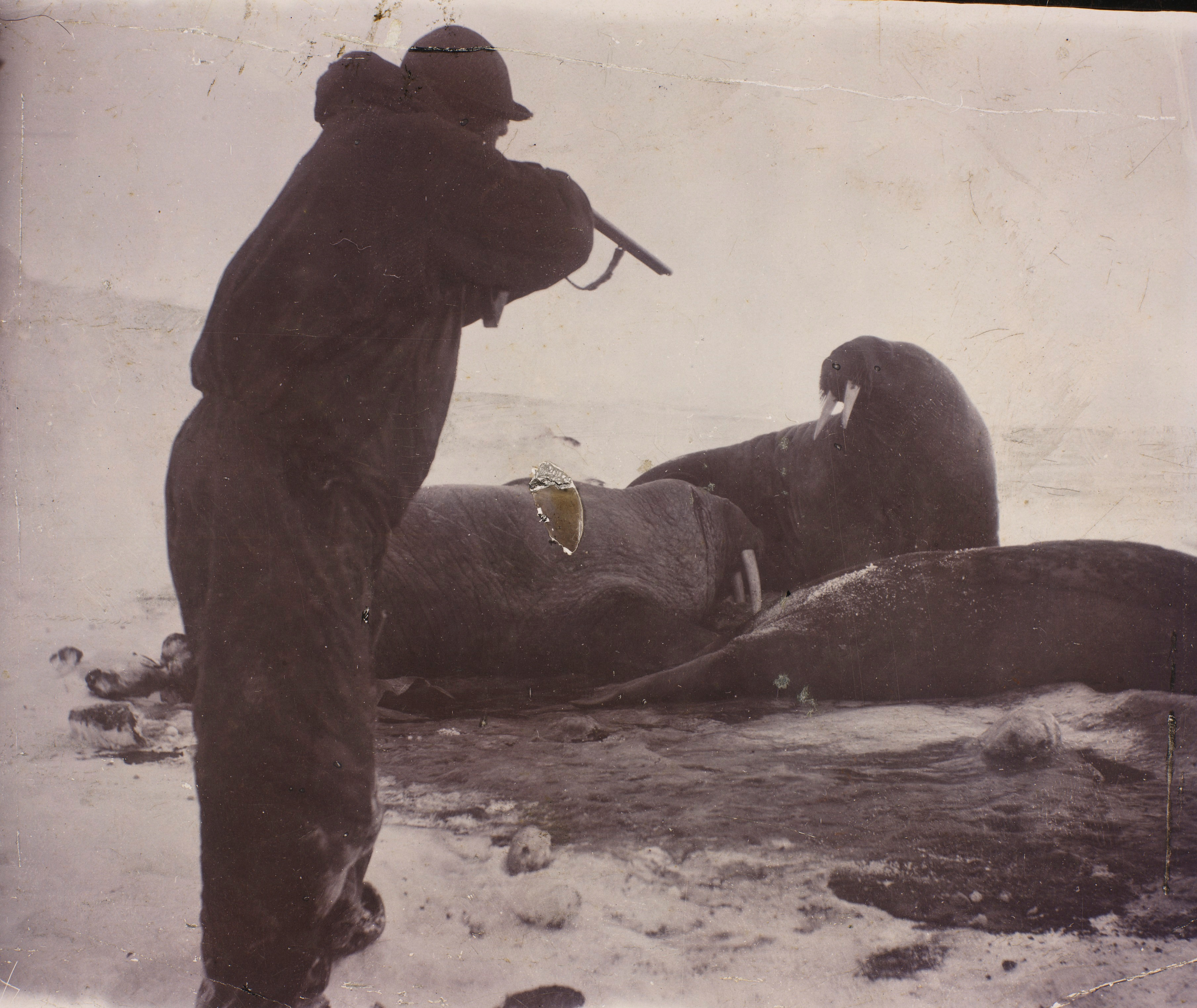 Fredrik Hjalmar Johansen hunting walrus. One of the pictures from the expedition with arctic ship toward the North Pole in the period June 24, 1893 to August 13, 1896. According to the plan, the ship was to drift in the ice with the ocean current from the coast of Siberia across the North Pole to Greenland. In March 1895, Fridtjof Nansen, together with a companion, set out on a hazardous expedition with skis and dogsledges, in an attempt to reach the pole itself.